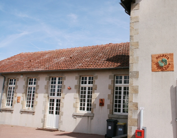 Français